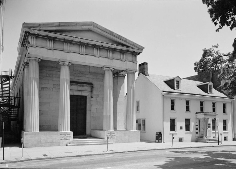 Bank of Chester County, 17 North High Street, West Chester, PA WEST (FRONT) ELEVATION HABS PA,15-WCHES,13-1